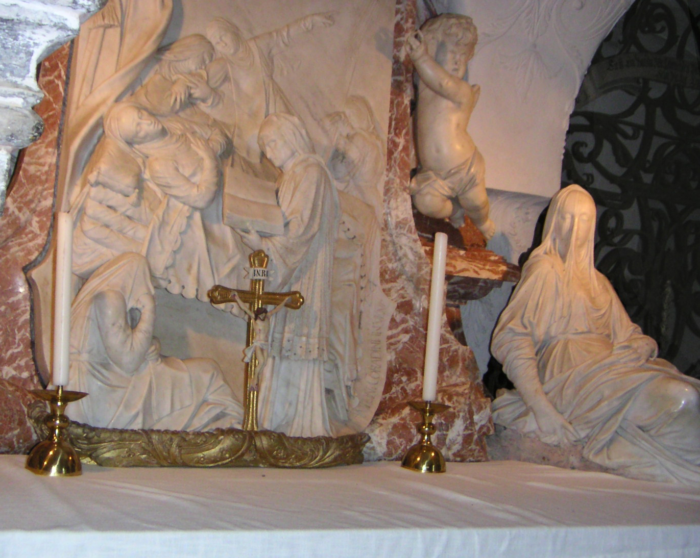 Tomb of Hemma of Gurk created by Antonio Corradini ( 1721 ) in the crypt of the Gurk cathedral, Carinthia, Austria